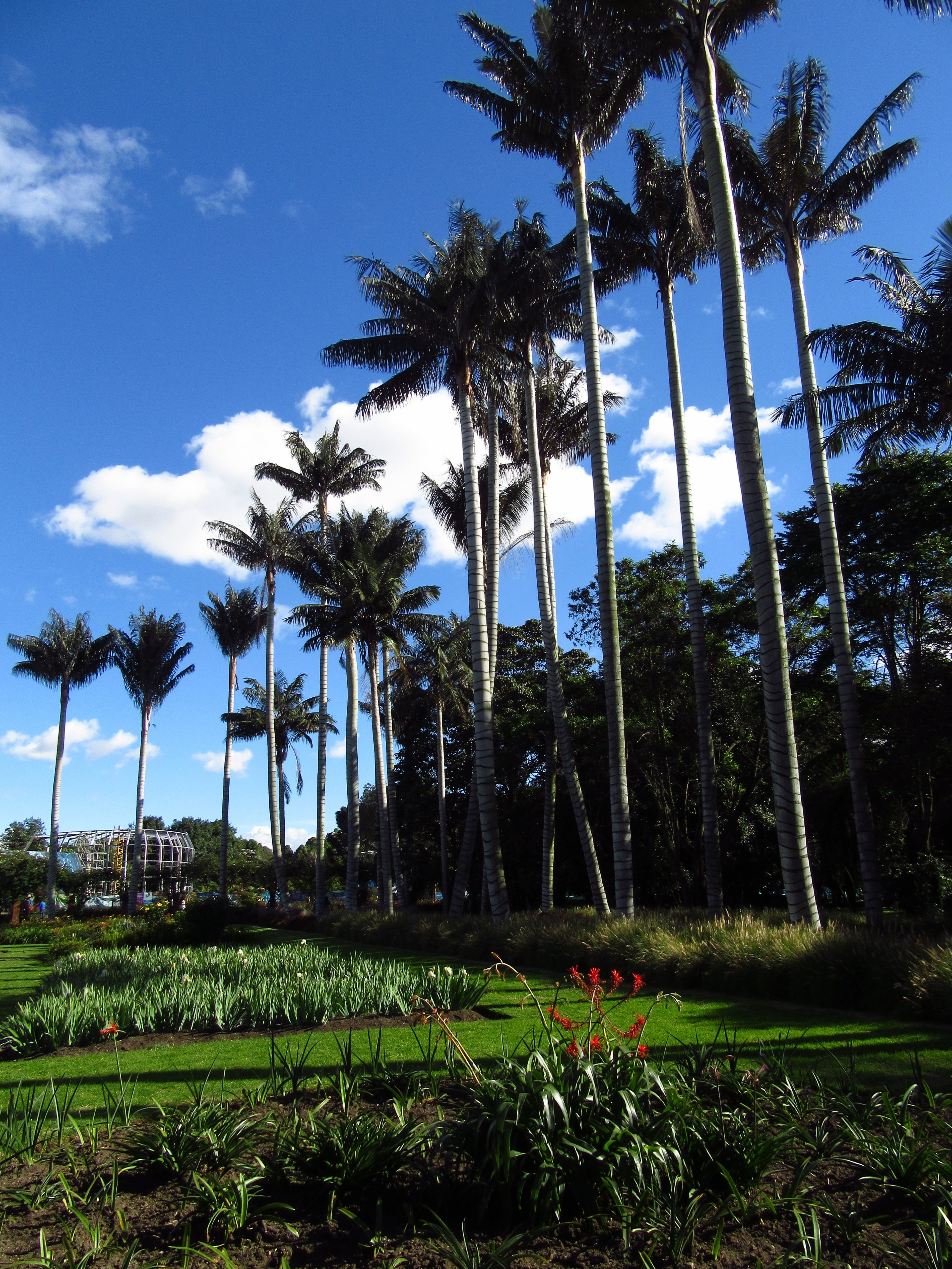 Bogotá